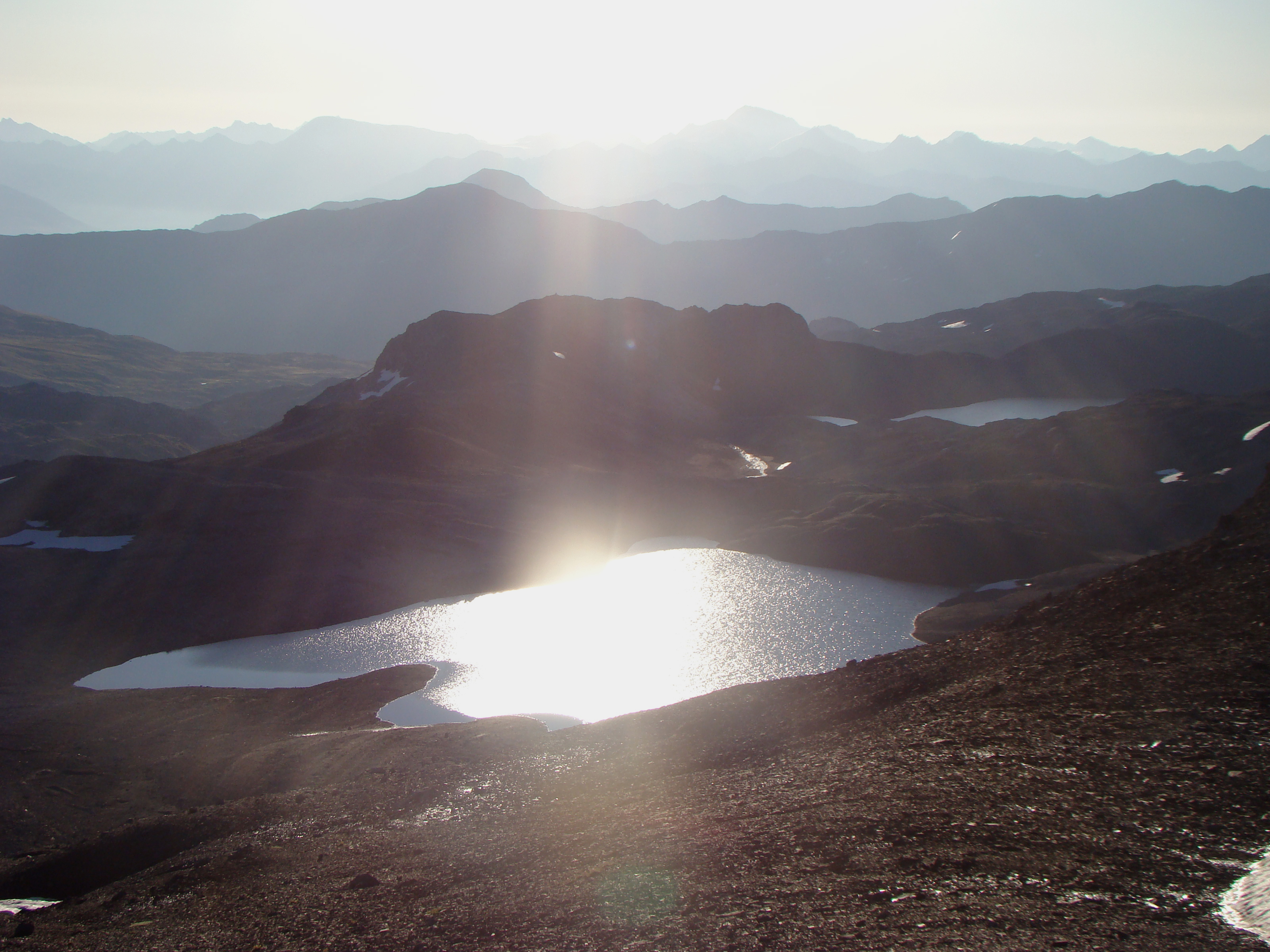 Lajet da Lischana